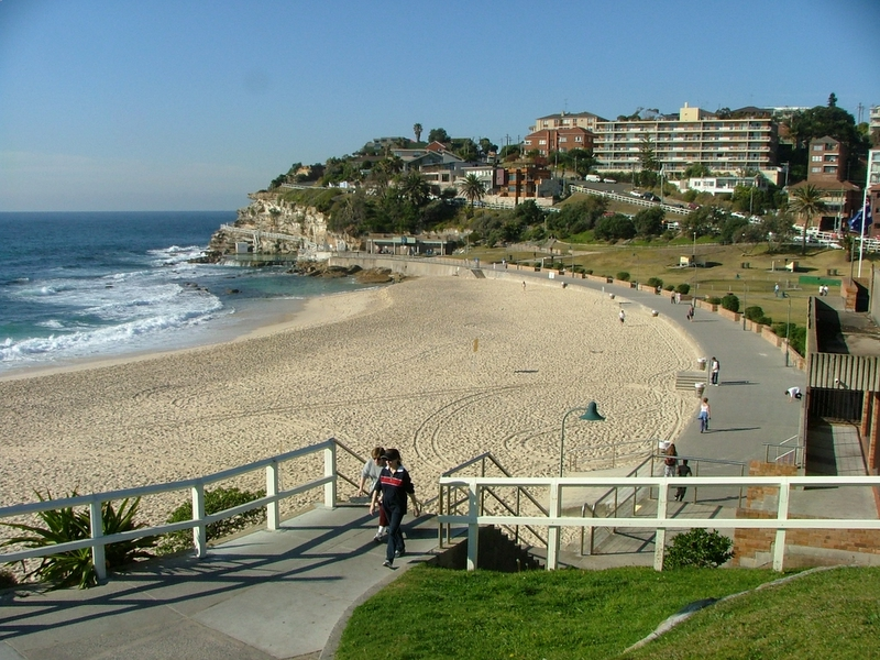 Bronte BEach in Wikipedia:Bronte, New South Wales